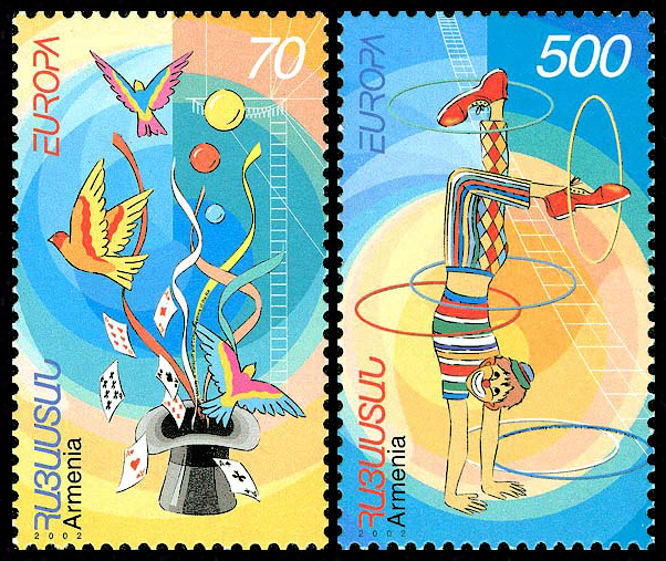 Postage stamps of Armenia, 2002. Issue under the EUROPA CEPT program.